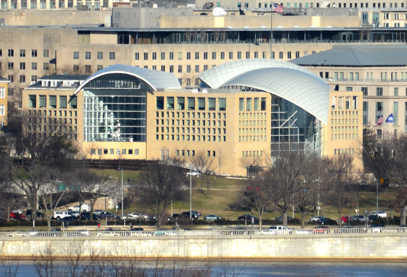 United States Institute of Peace Headquarters located at 2301 Constitution Avenue NW in the Foggy Bottom neighborhood of Washington, D.C.